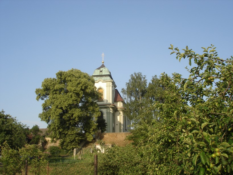 Holy Trinity church in Drahobudice, Czech Republic.